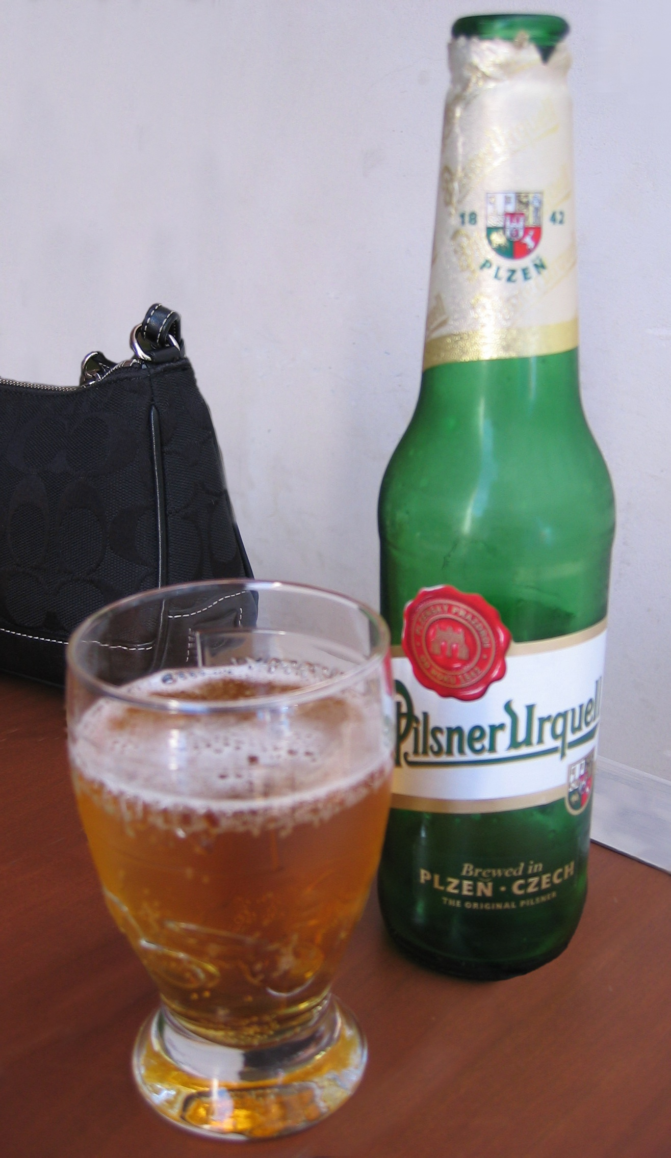 A bottle of Pilsner Urquell beside the glass of Pilsner Urquell beer, Prague, Czech Republic